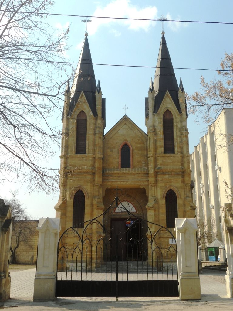 Image of the Roman Catholic church in Orhei, Republic of MoldovaRomână: Vedere a Bisericii romano-catolice din Orhei, Republica Moldova